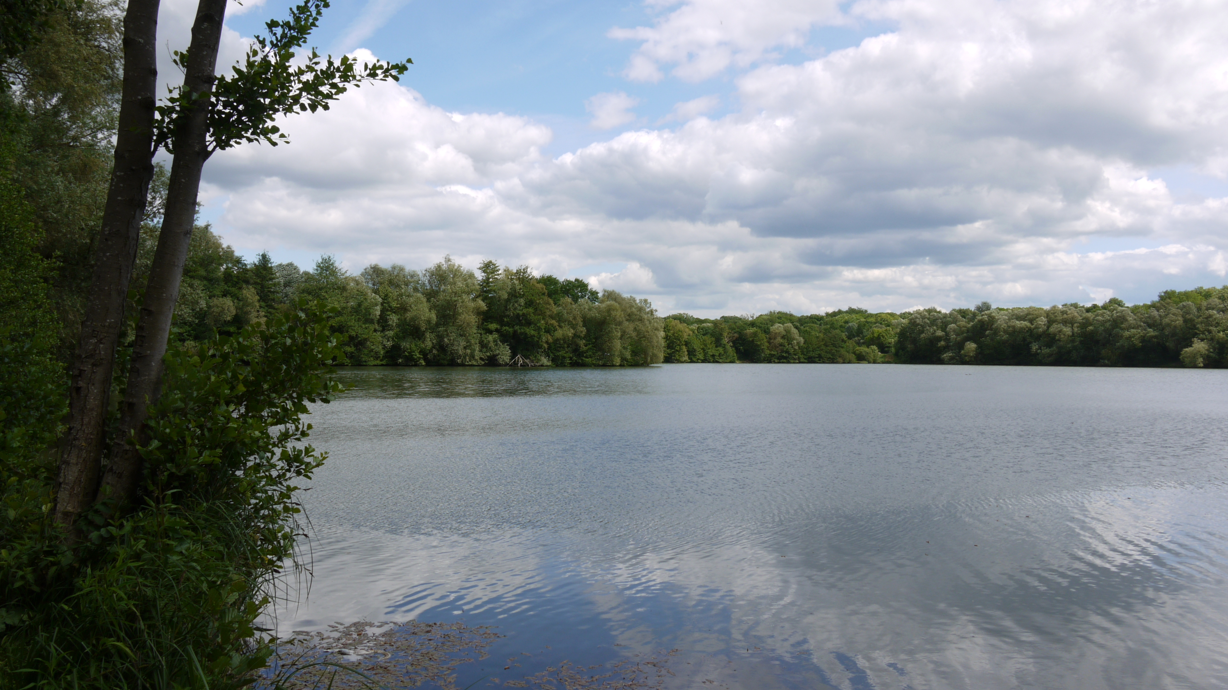 Dam reservoir of Trevoix in the Orge valley, Bruyères le Chatel (France).